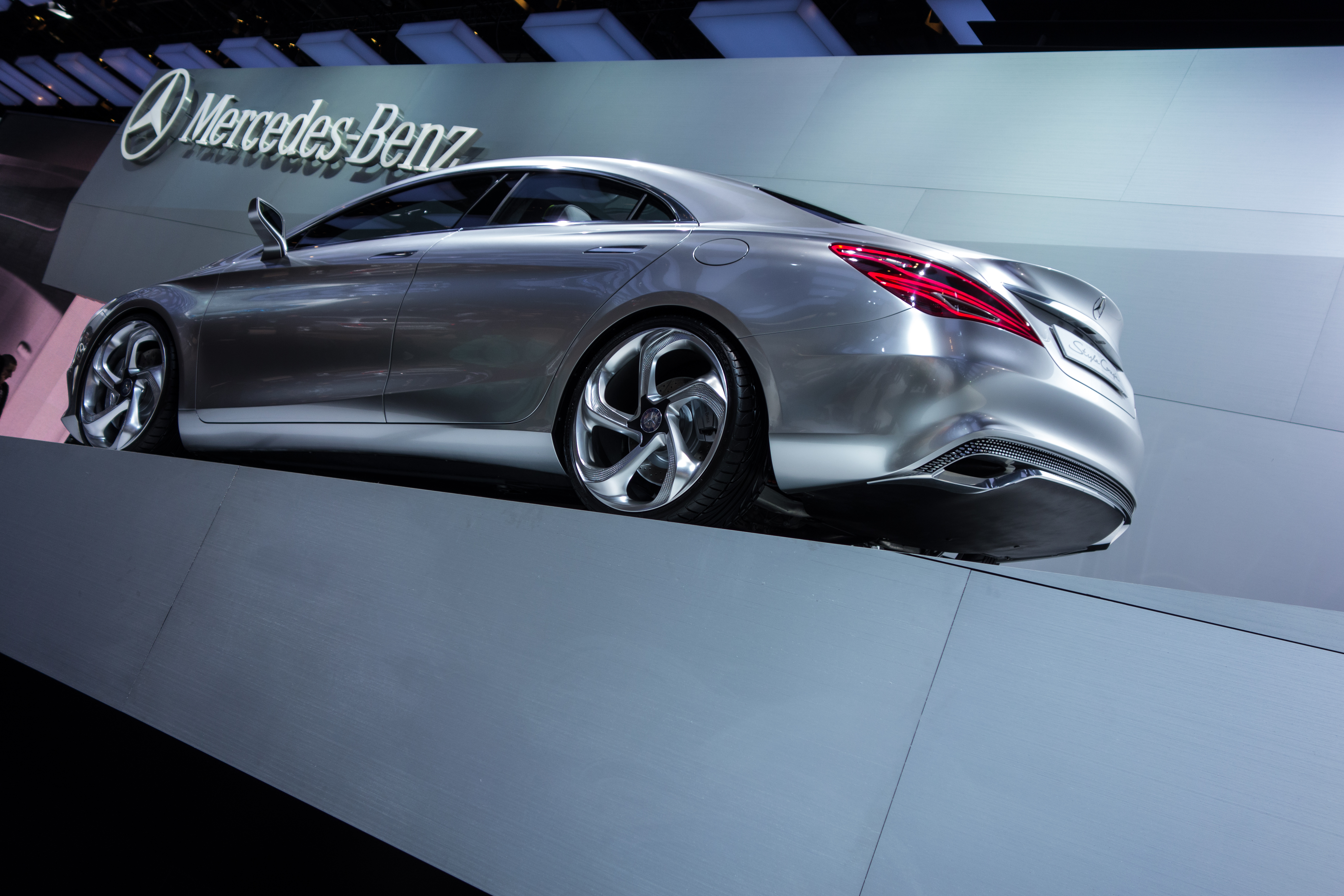 Mondial De L'automobile Paris 2012 | Paris Motor Show 2012